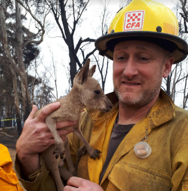 Brian Stearns, a Huron-Manistee National Forests employee is pictured with a kangaroo joey who approached firefighters in the field seeking refuge from the #AustralianWildFires. We are continuing to mobilize U.S. Forest Service fire crews to assist during the #AustralianBushfiresDisaster.